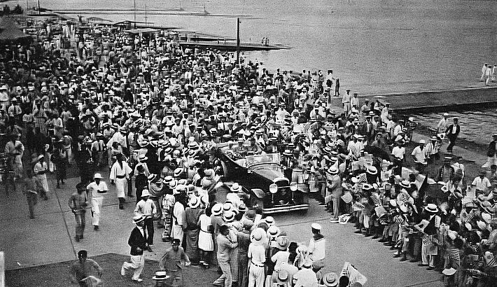 Charles Lindbergh and his wife visit to Japan